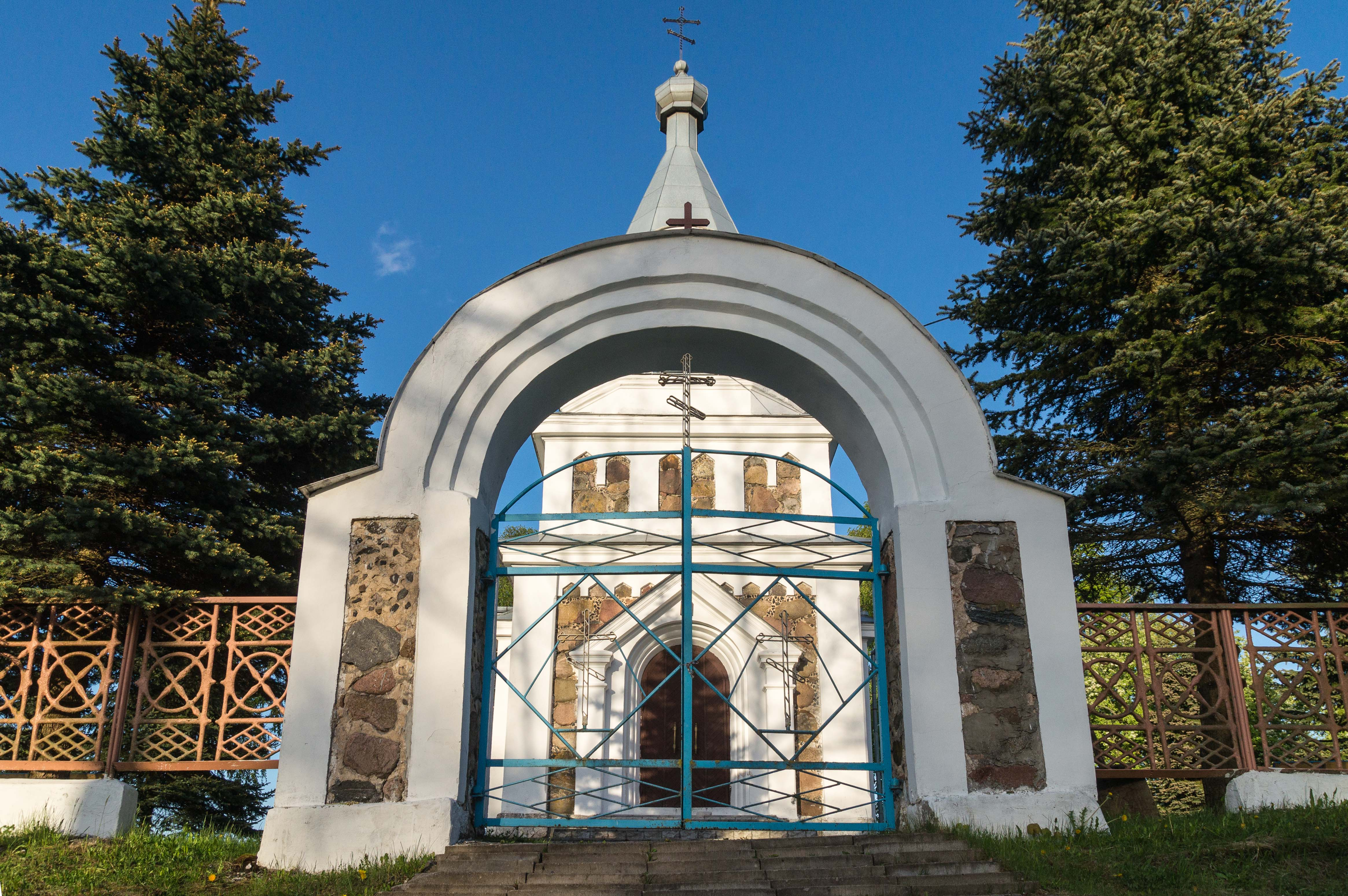 Slabada. Orthodox church of St. Aliaksandar Neuski